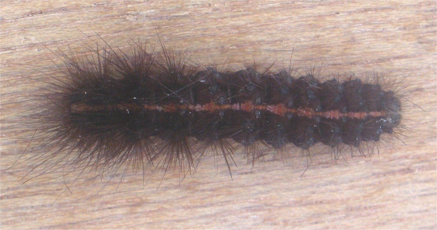 Spilosoma lubricipeda